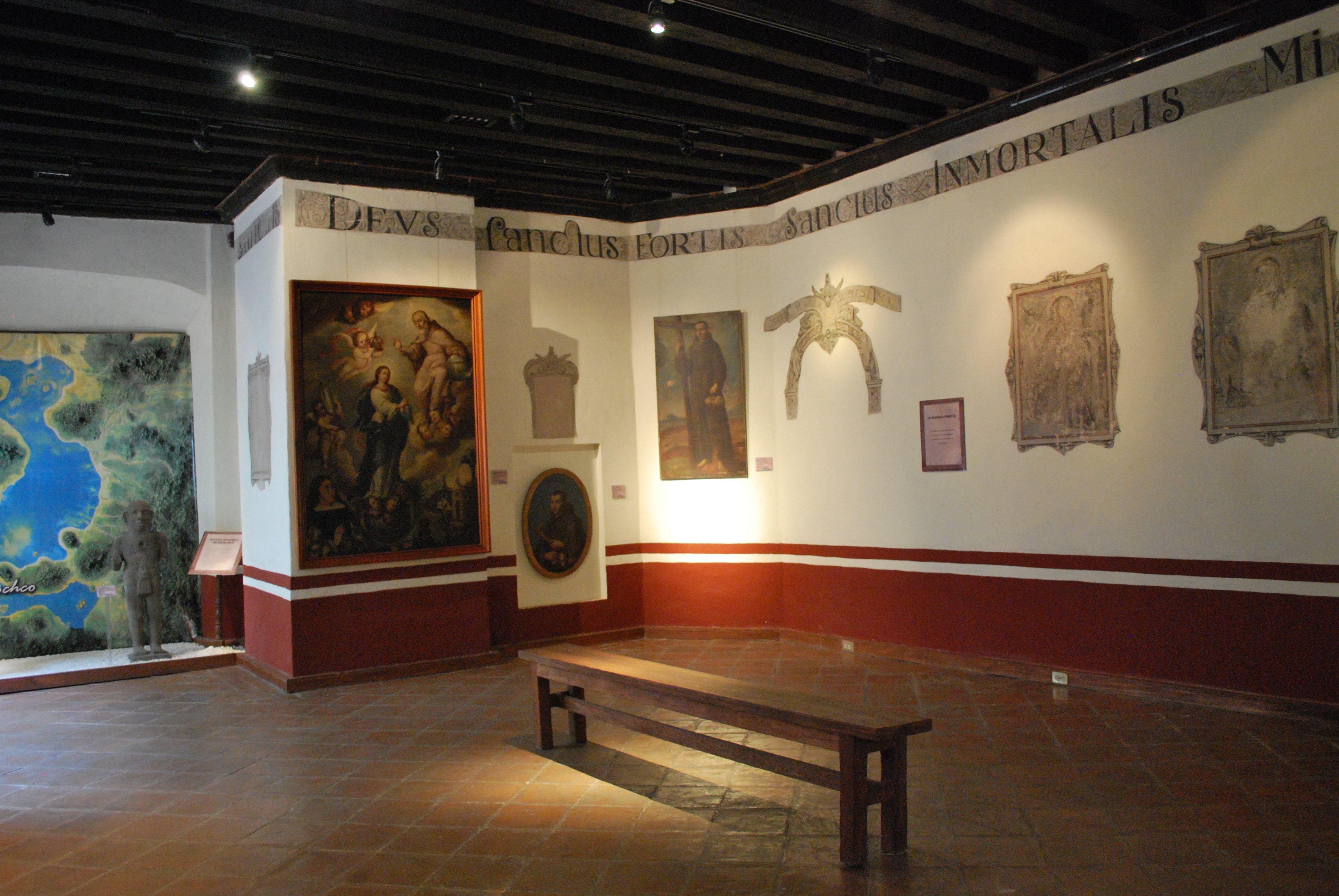 Exhibition room at the the Museo Nacional de las Intervenciones (ex Monastery of Churubusco) in Coyoacan borough, Mexico City